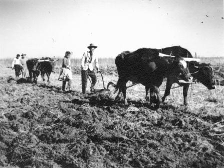 Caption: The Toba Indians have changed from roving nomads to stable farmers. However, they would still benefit from improved agricultural methods. Citation: Mennonite Board of Missions. Photographs. Chaco, Argentina, 1963-1965. IV-10-7.2 Box 1 folders 36-38, photo #17. Mennonite Church USA Archives - Goshen. Goshen, Indiana.